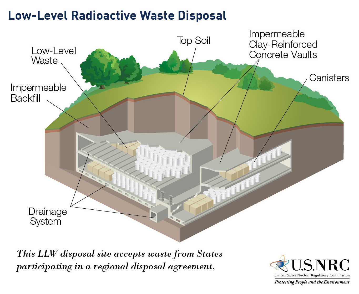 Infographics of the low-level radioactive waste disposal from the 2017-2018 Information Digest, NUREG 1350, Volume 29. Published in August 2017. For more information go to: Visit the Nuclear Regulatory Commission's website at To comment on this photo go to Photo Usage Guidelines: Privacy Policy: For additional information contact: OPA Resource.